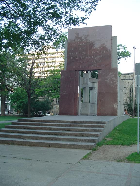 Photo of the Canadian Tribute to Human Rights, Ottawa, Ontario, Canada, viewed from the north. Photo du Monument canadien pour les droits de la personne, Ottawa, Ontario, Canada, vu du nord.